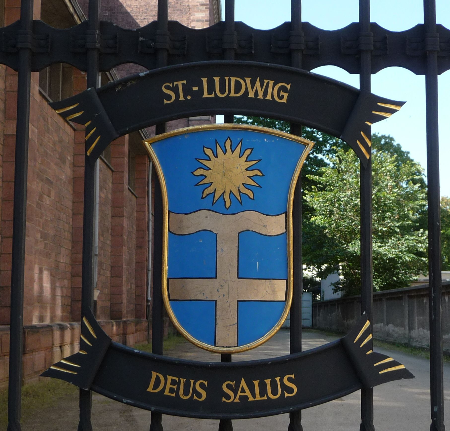 St. Ludwig in Ludwigshafen, Germany